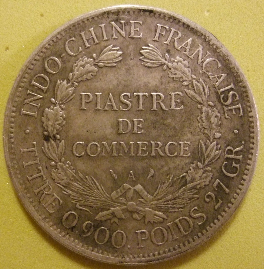 French Indochina was an east Asian colonial state in 1908. By 1954 French Indochina became Laos, Cambodia and Vietnam. Other side